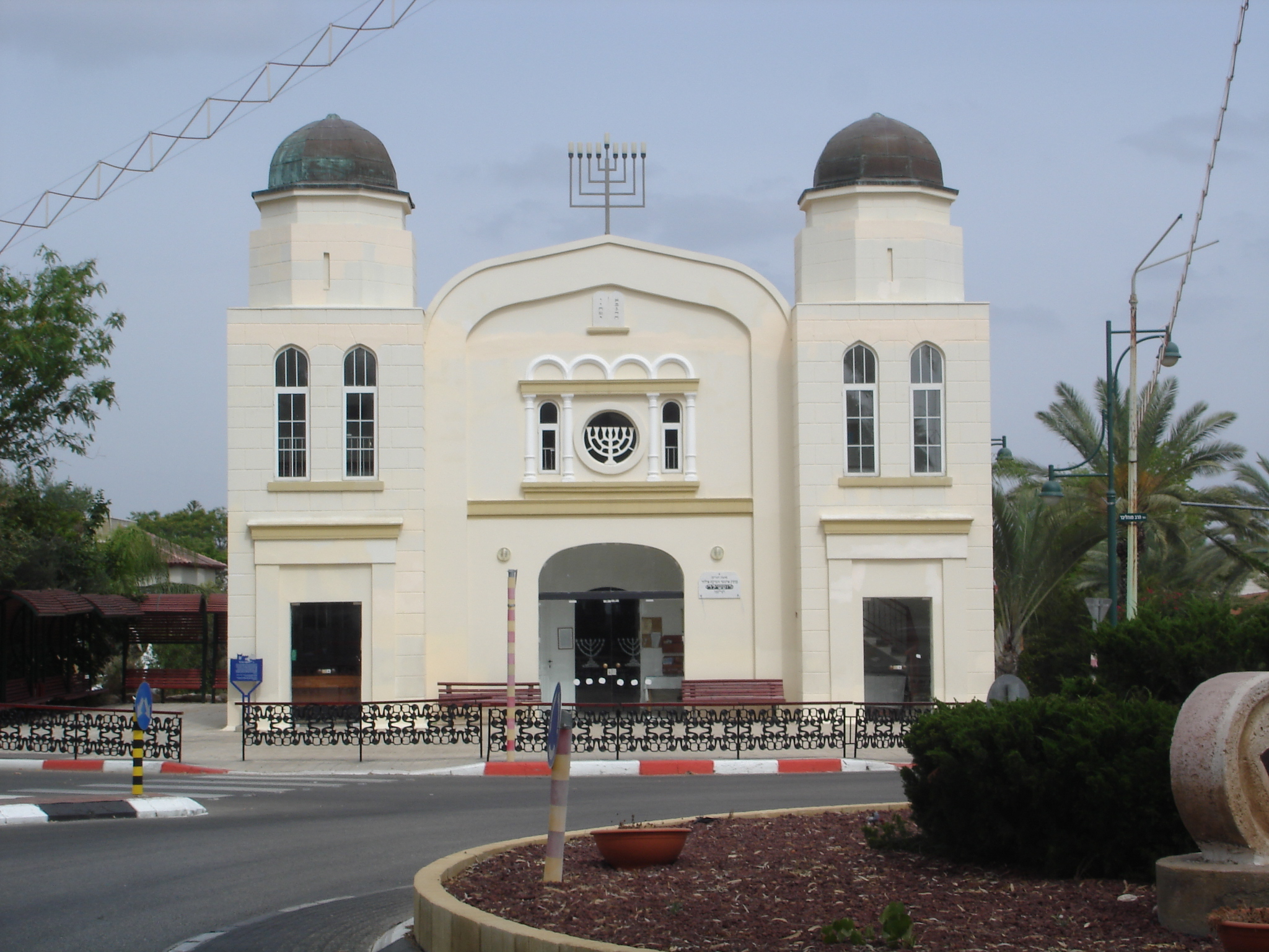 Synagogue of Mazkeret Batya, donator: Baron Rothschild